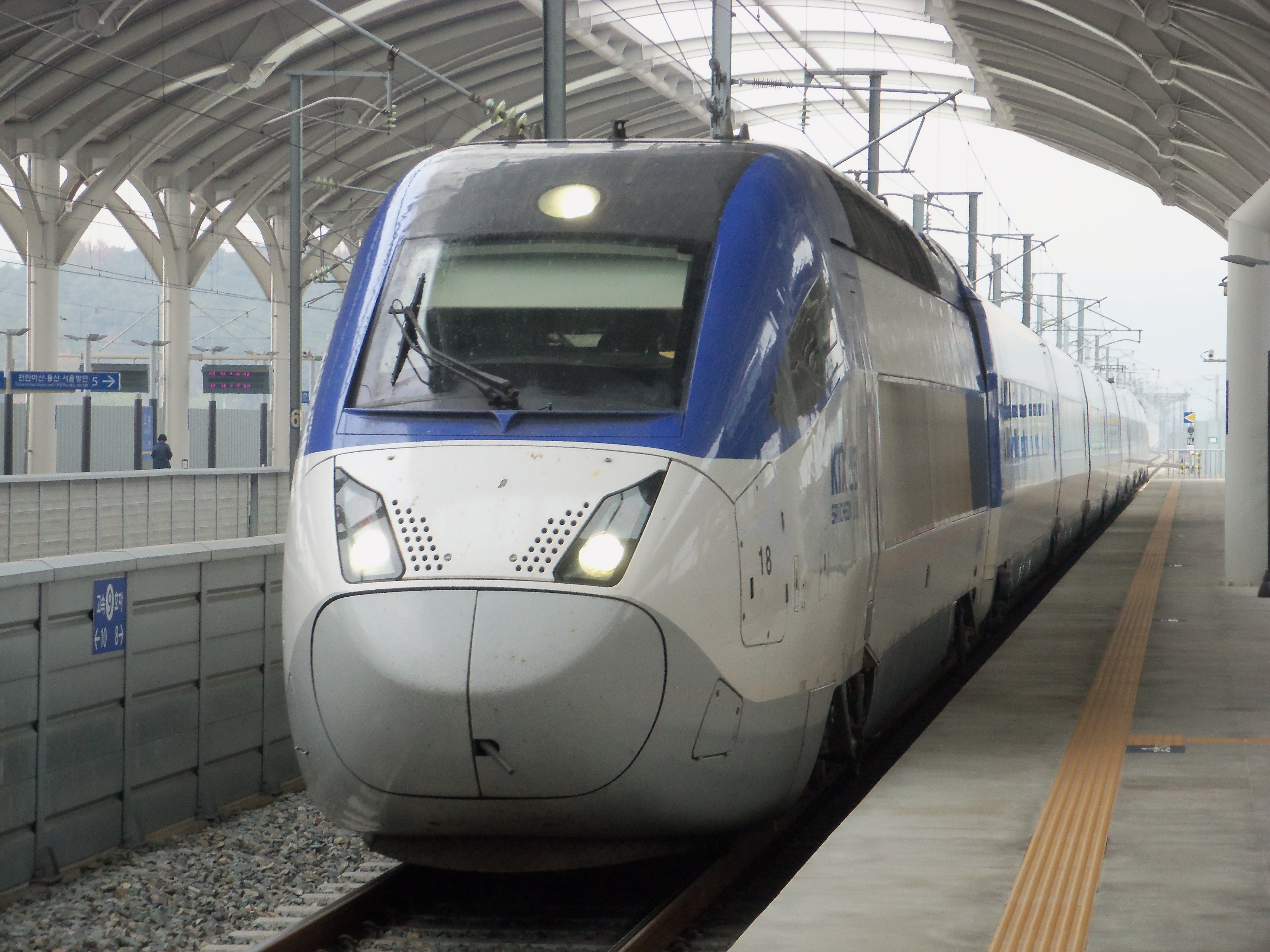 Front view of KTX-Sancheon approaching Osong Stn.